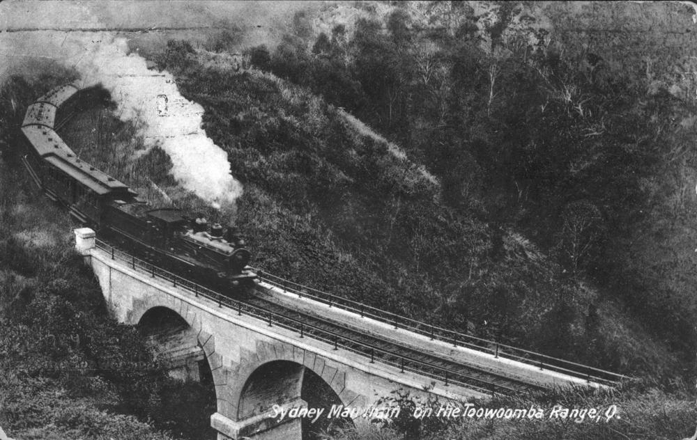 Sydney Mail train crossing Swanson's Bridge on the Toowoomba Range, ca. 1910. The carriage nearest the engine is a travelling post office, a regular vehicle on the Sydney Mail train. Swanson was a sub-contractor on the range railway construction in the 1860s. The bridge is located 96 ¾ miles between Ballard and Harlaxton. The postcard is number 1690 in a series printed in various countries. This sample was printed in Saxony. (Description supplied with photograph.).